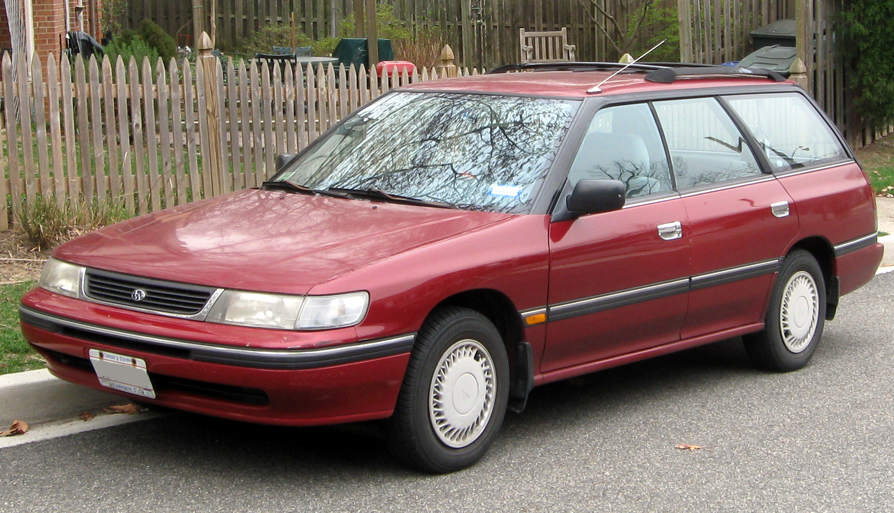 1992-1994 Subaru Legacy photographed in Washington, D.C., USA.